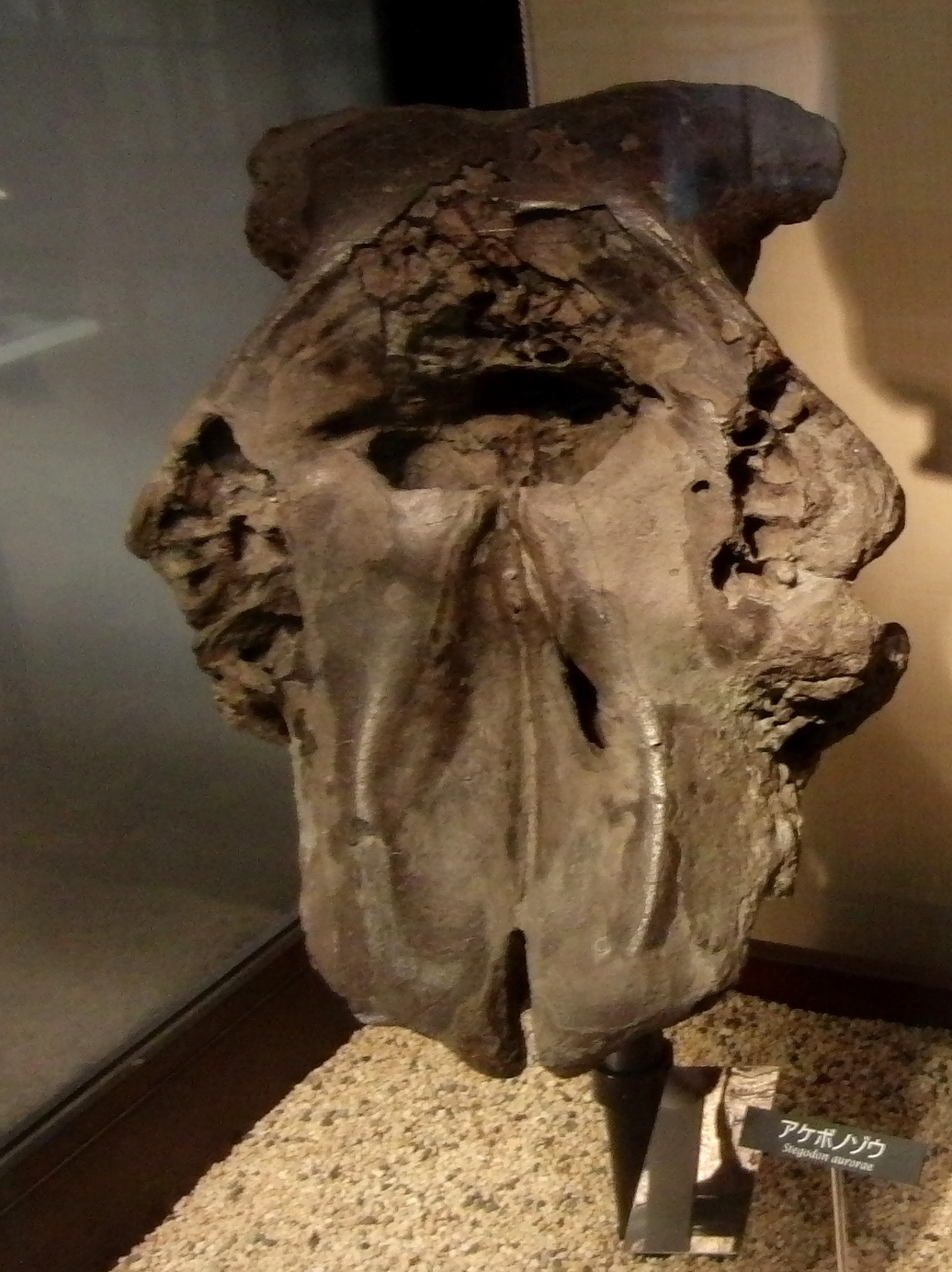 Skull of Stegodon aurorae. Exhibit in the National Museum of Nature and Science, Tokyo, Japan.